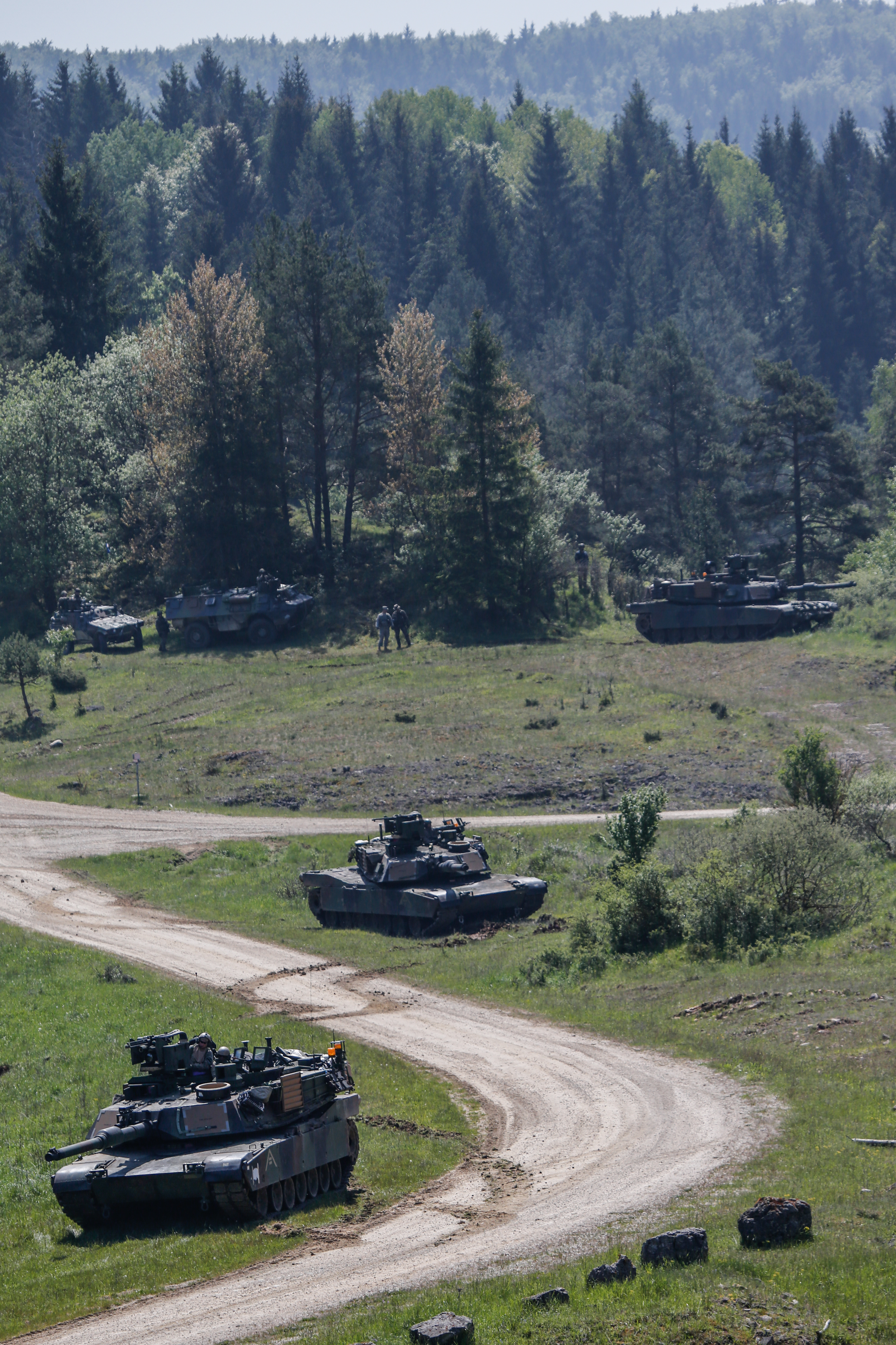 1A2 tanks at Combined Resolve II. U.S. Soldiers of 2nd Battalion, 5th Cavalry Regiment, 1st Brigade Combat Team, 1st Cavalry Division scan for threats atop an M1A1 Abrams tank during exercise Combined Resolve II at the Joint Multinational Readiness Center in Hohenfels, Germany, May 19, 2014. Combined Resolve II is a multinational decisive action training environment exercise occurring at the Joint Multinational Training Command’s Hohenfels and Grafenwoehr Training Areas that involves more than 4,000 participants from 15 partner nations. The intent of the exercise is to train and prepare a U.S. led multinational brigade to interoperate with multiple partner nations and execute unified land operations against a complex threat while improving the combat readiness of all participants. (U.S. Army photo by Spc. Bryan Rankin).